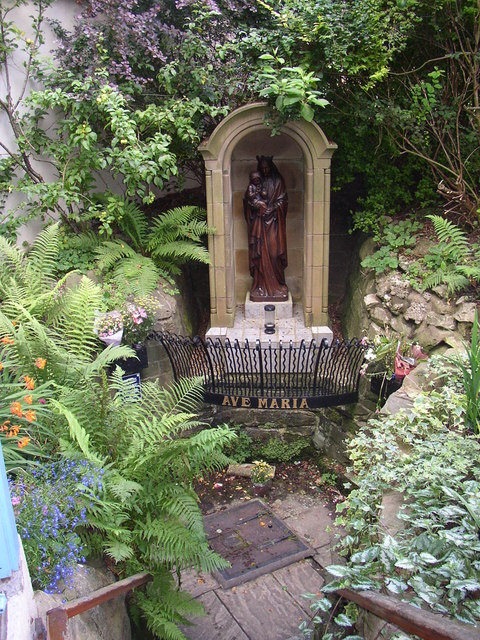 St Mary's Well, Ladyewell House, Broughton (Preston) The light blue at the bottom left of the photo is a corner of the chapel. There are steps down to the grotto containing the well.